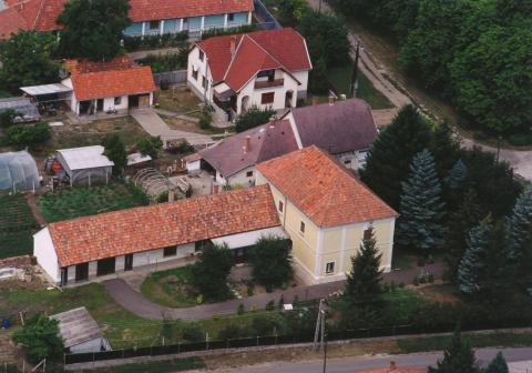 Boldog, Hungary, aerial photography